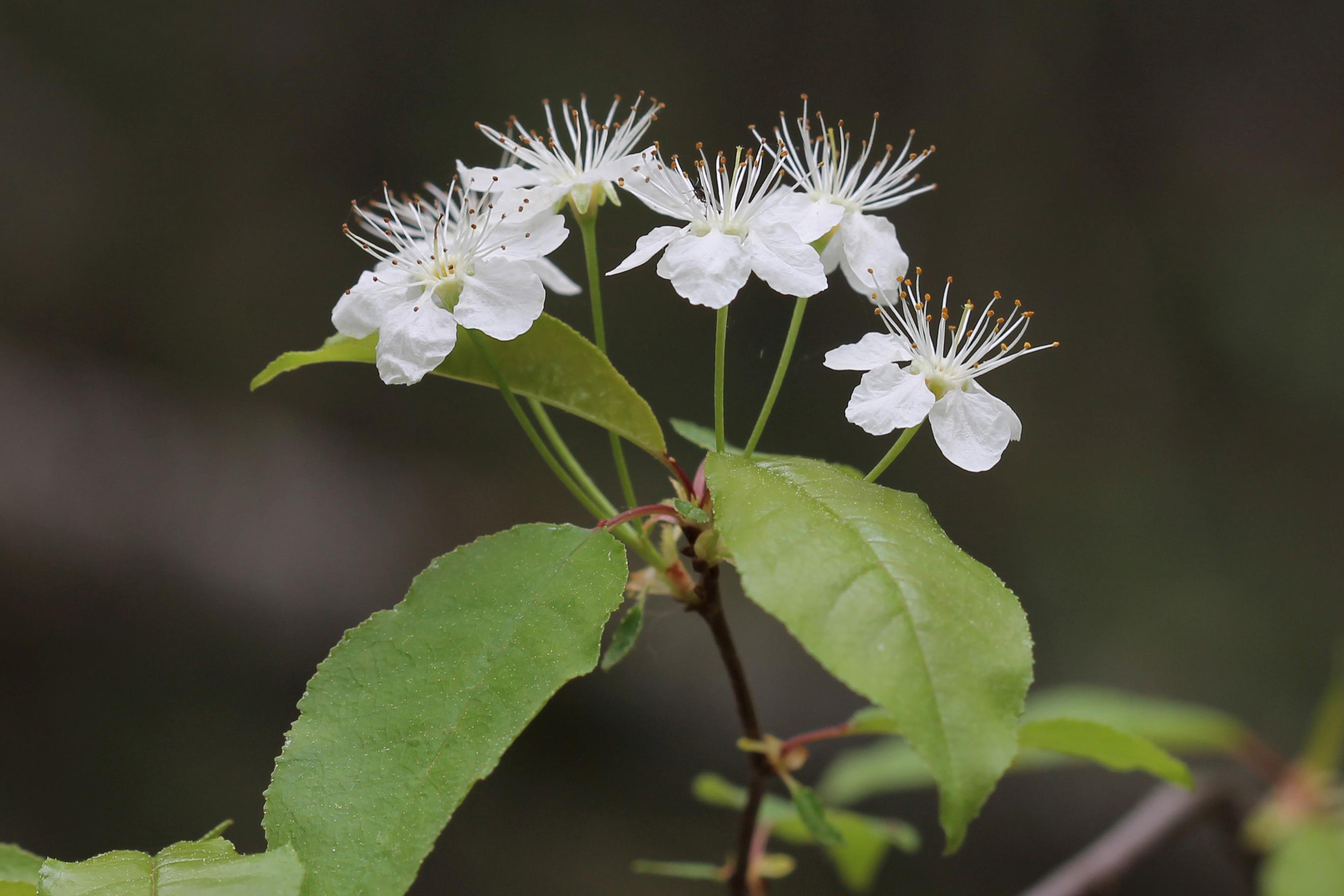 pin cherry (Prunus pensylvanica) L. f. - Flower(s) - Cranberry Creek / Thielman Road area, Goulais River, Ontario, Canada